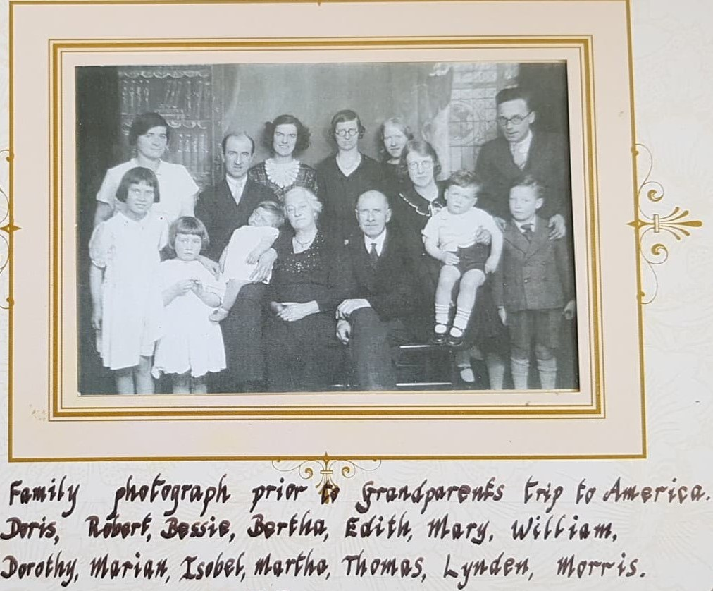 Photograph of Thomas Frederick Worrall, his wife, their offspring and grandchildren. Their son Robert married Doris and their daughter Mary married William Jones.